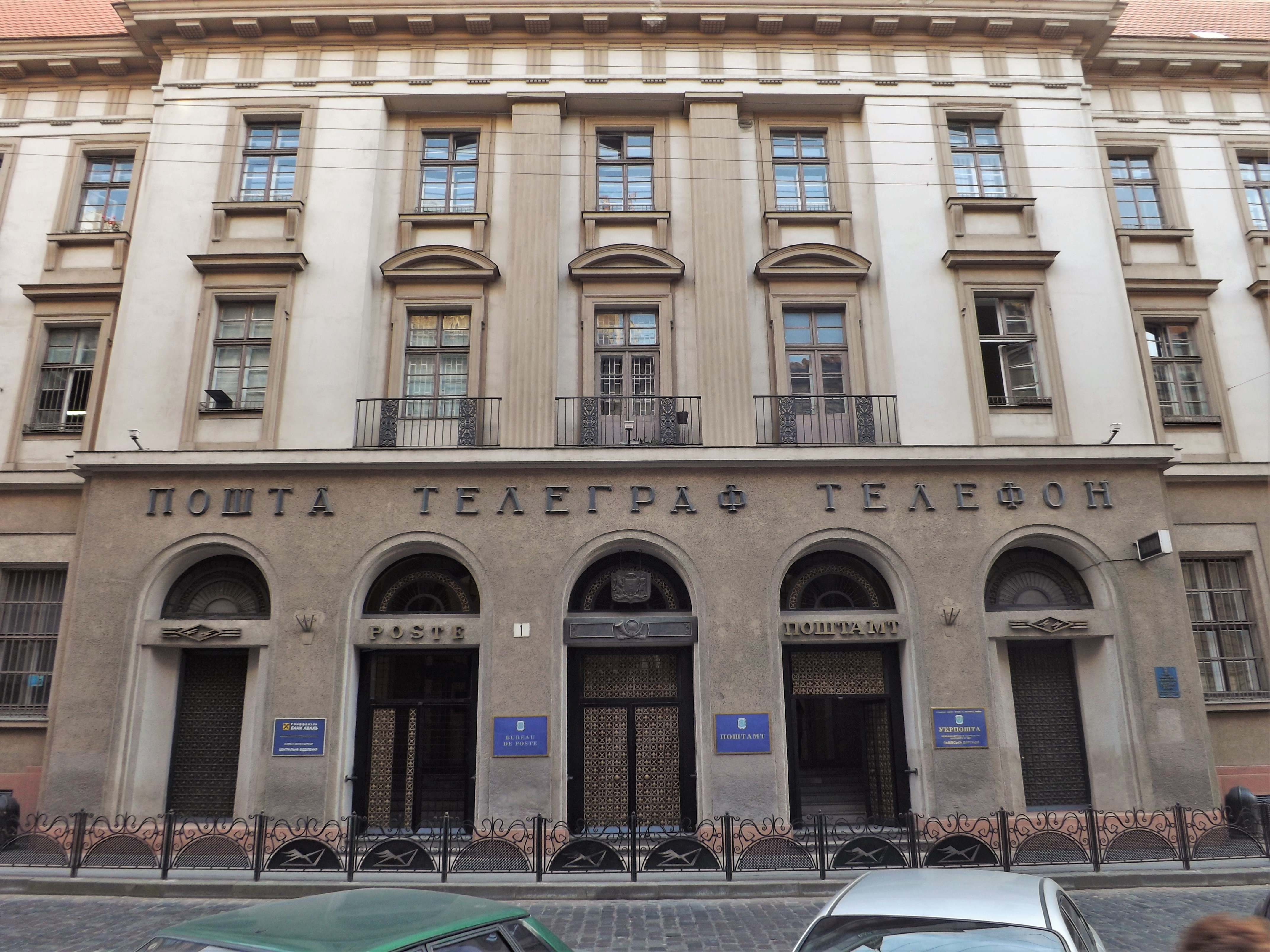 Lviv architecture and parks